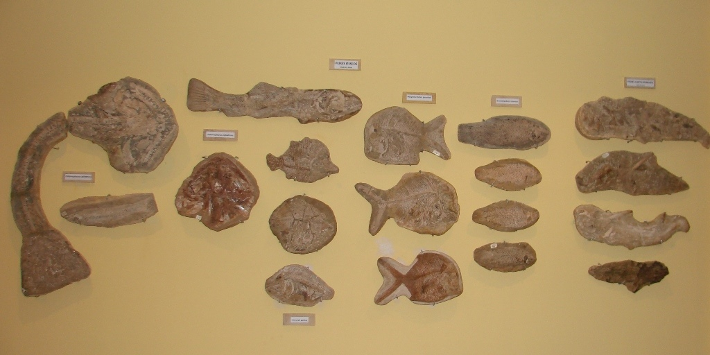 Fish fossils exhibited in the Museum of Paleontology Santana Cariri-CE